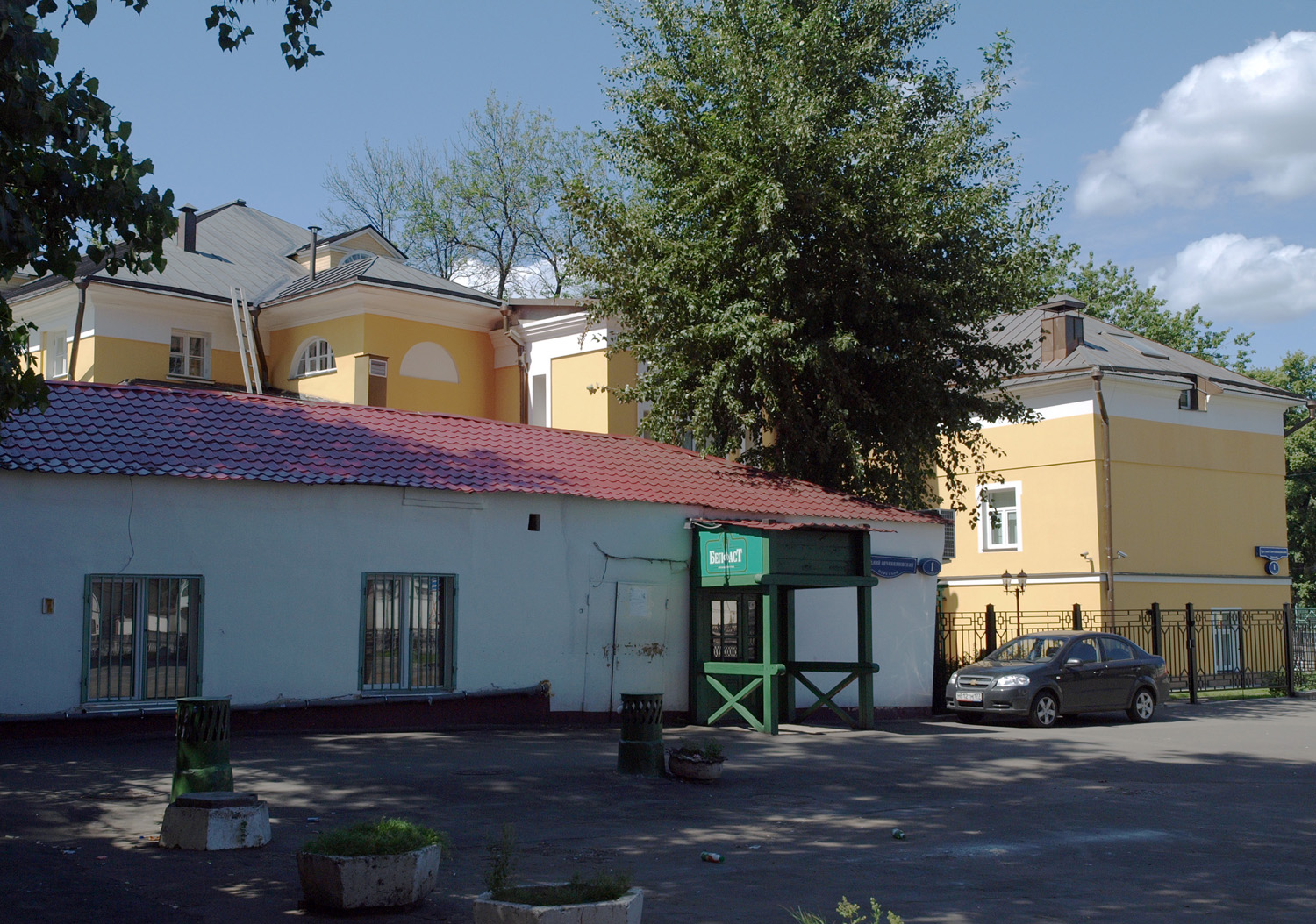 Zamoskvorechye, Moscow. Sredny Ovchinnikovsky Lane.